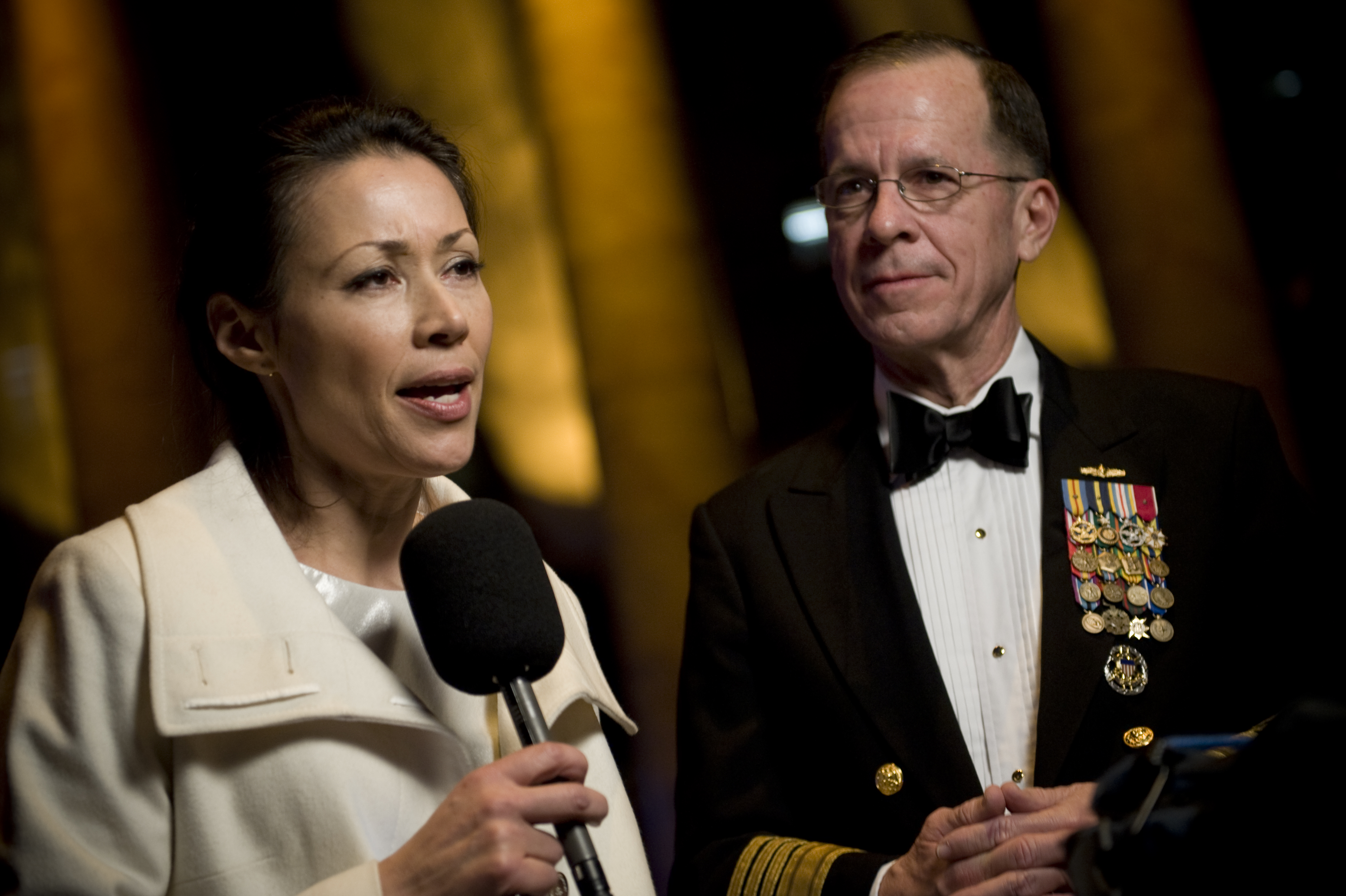 U.S. Navy Admiral Mike Mullen, chairman of the Joint Chiefs of Staff, is interviewed by NBC's Ann Curry at the Commander-in-Chief's Ball at the National Building Museum in Washington, D.C., Jan. 20, 2009. The ball, hosted by President Barack Obama, honored America's service members, families of the fallen, and wounded warriors.